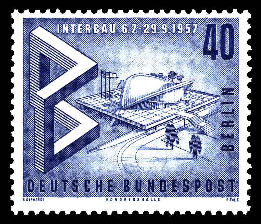 stamp for the international exhibition of building structure Interbau